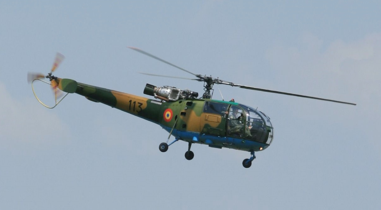 IAR-316B at Otopeni Air Show 2010